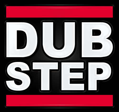 Dubstep Title